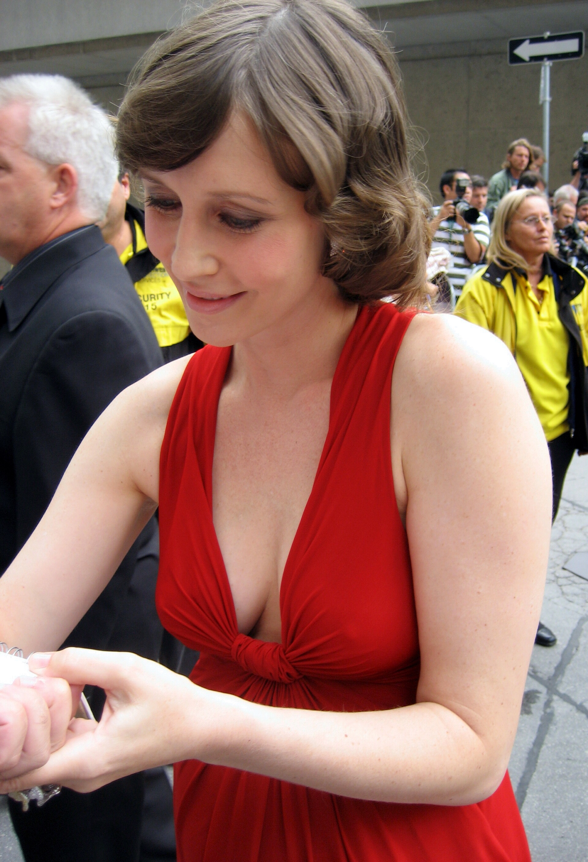 Vera Farmiga at the Nothing But the Truth premiere, September 8, 2008.